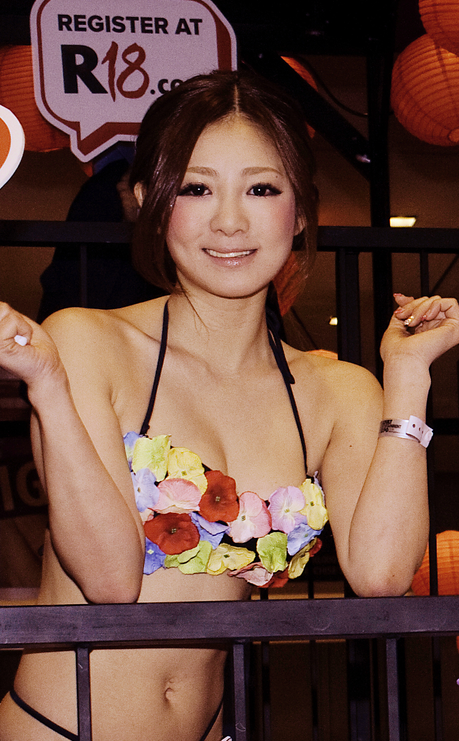 Minori Hatsune is a Japanese AV idol.